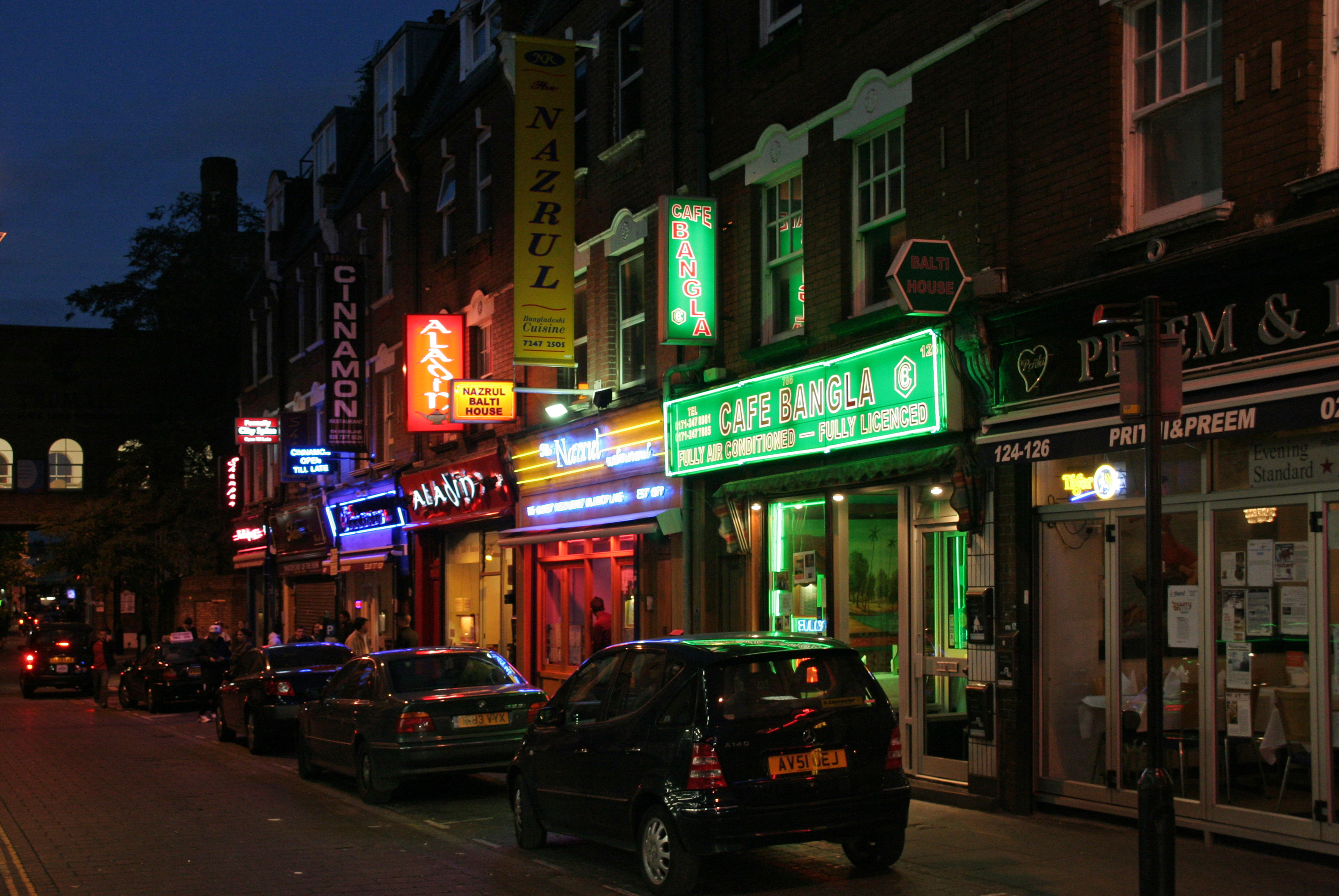 The streets of Brick Lane at night in east London, the curry capital of London.